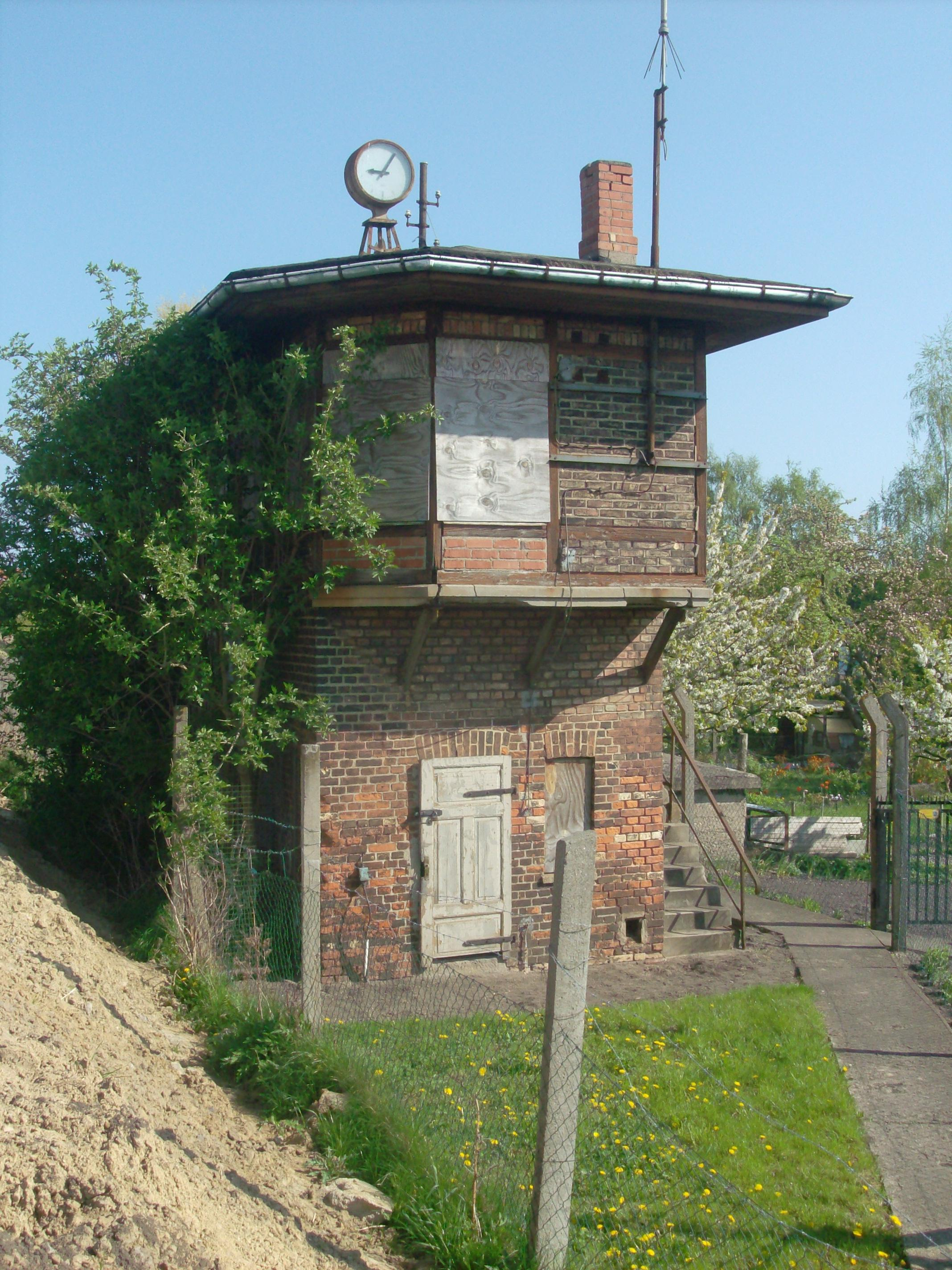 Rostock, former railway station Friedrich-Franz-Bahnhof, former signal tower